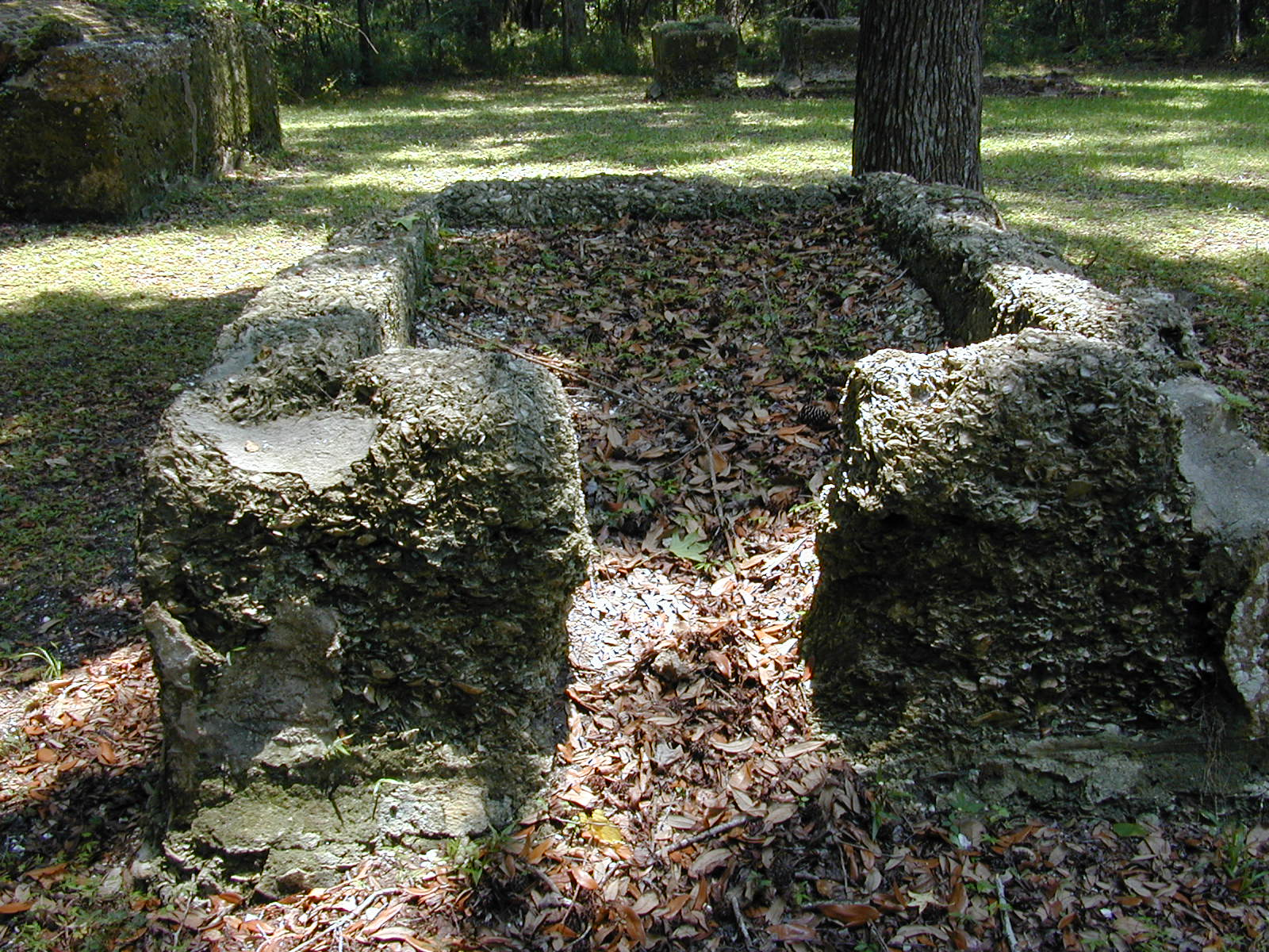 Remains og a grave at Fort Frederica National monument, Georgia